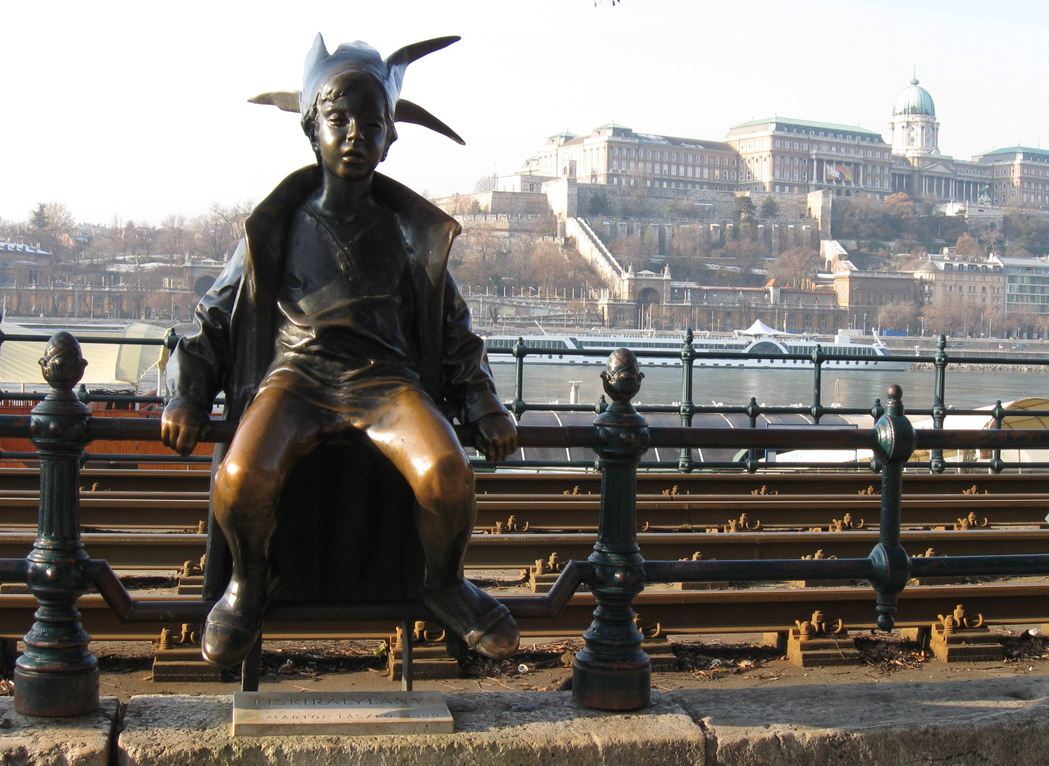 Statue of "Little Princess" ("Kiskirálylány" in Hungarian) on the bank of Danube river. In the background the historical royal palace can be seen. The site is part of the Unesco World Heritage.